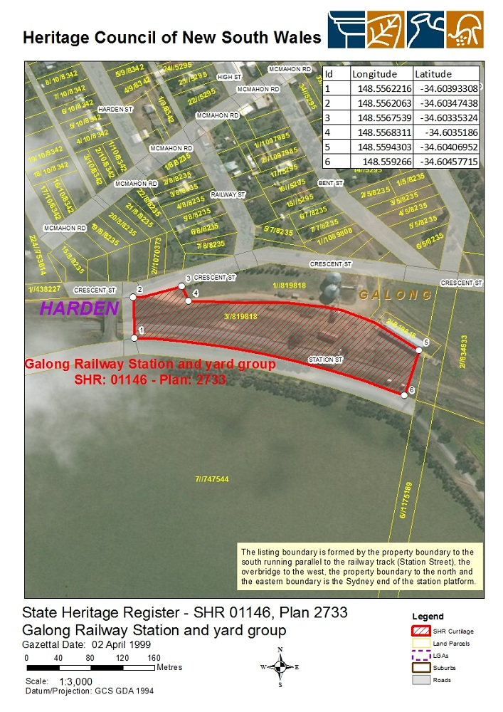 Galong railway station: SHR Plan No 2733